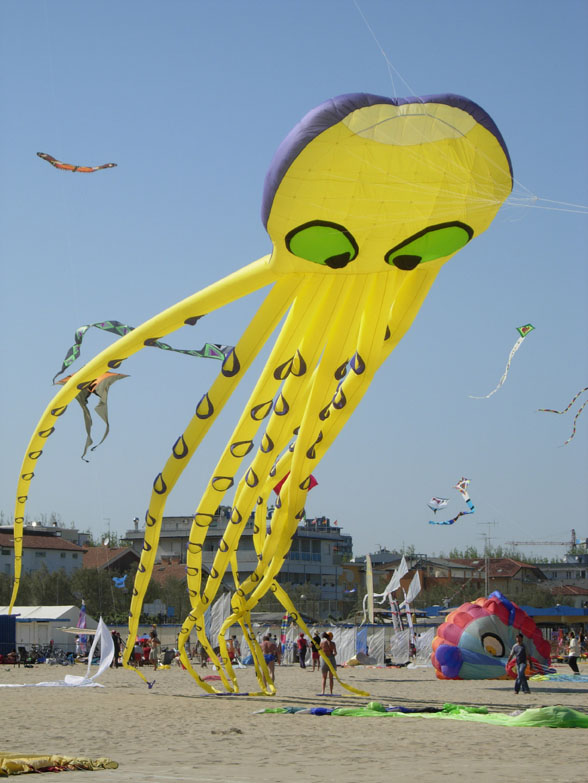 Self-made image, Cervia, Italy, April 2007 Clappingsimon talk 13:30, 29 May 2007 (UTC)